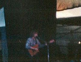 Yes, live performance in Montreal, Canada, June 19, 1998.